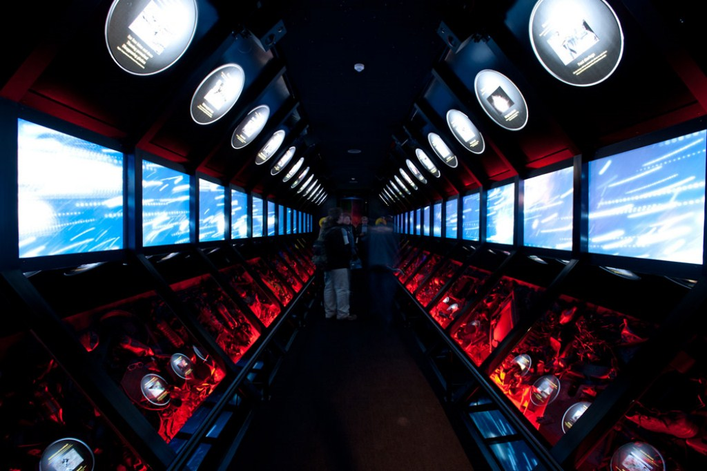 Glaciarium Cuenta Regresiva